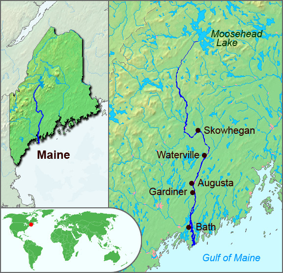 The underlying topographic maps used in this image come from the Demis Web Map Server, and are in the public domain. The world locator map is derived from BlankMap-World.png. I added the feature layers myself. —Papayoung 22:12, 26 September 2005 (UTC)